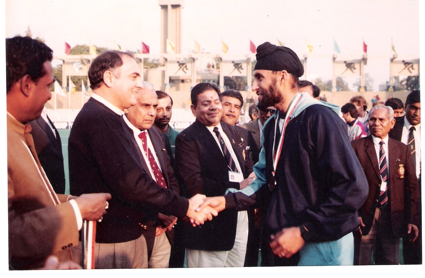 With the late PM Shri Rajiv Gandhi during the medal ceremony, 1991